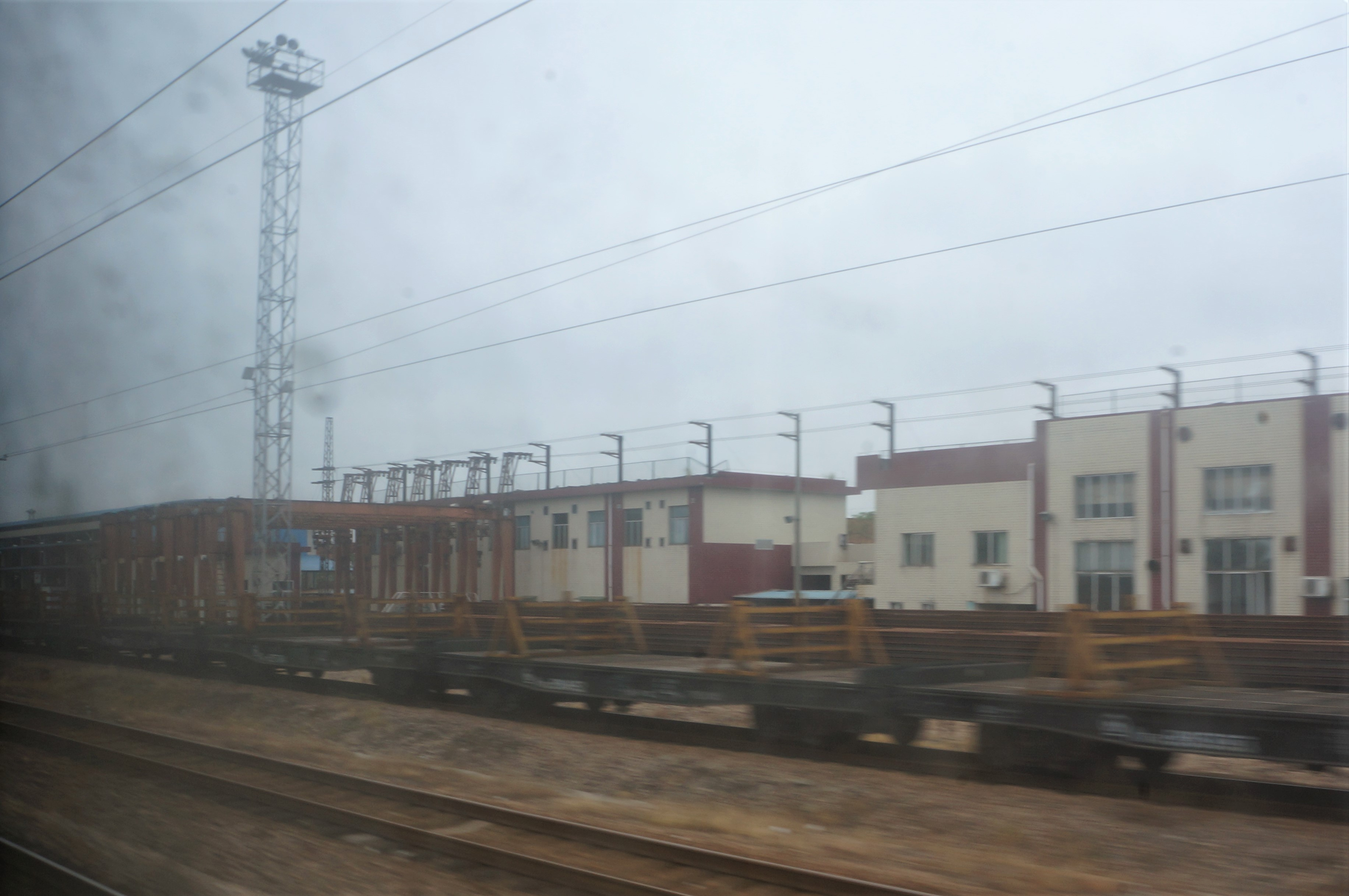 201609 Yard 1 of Shilong Station